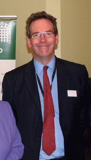 Patrick Stopford, 9th Earl of Courtown at "Make Parks a Priority" campaign launch